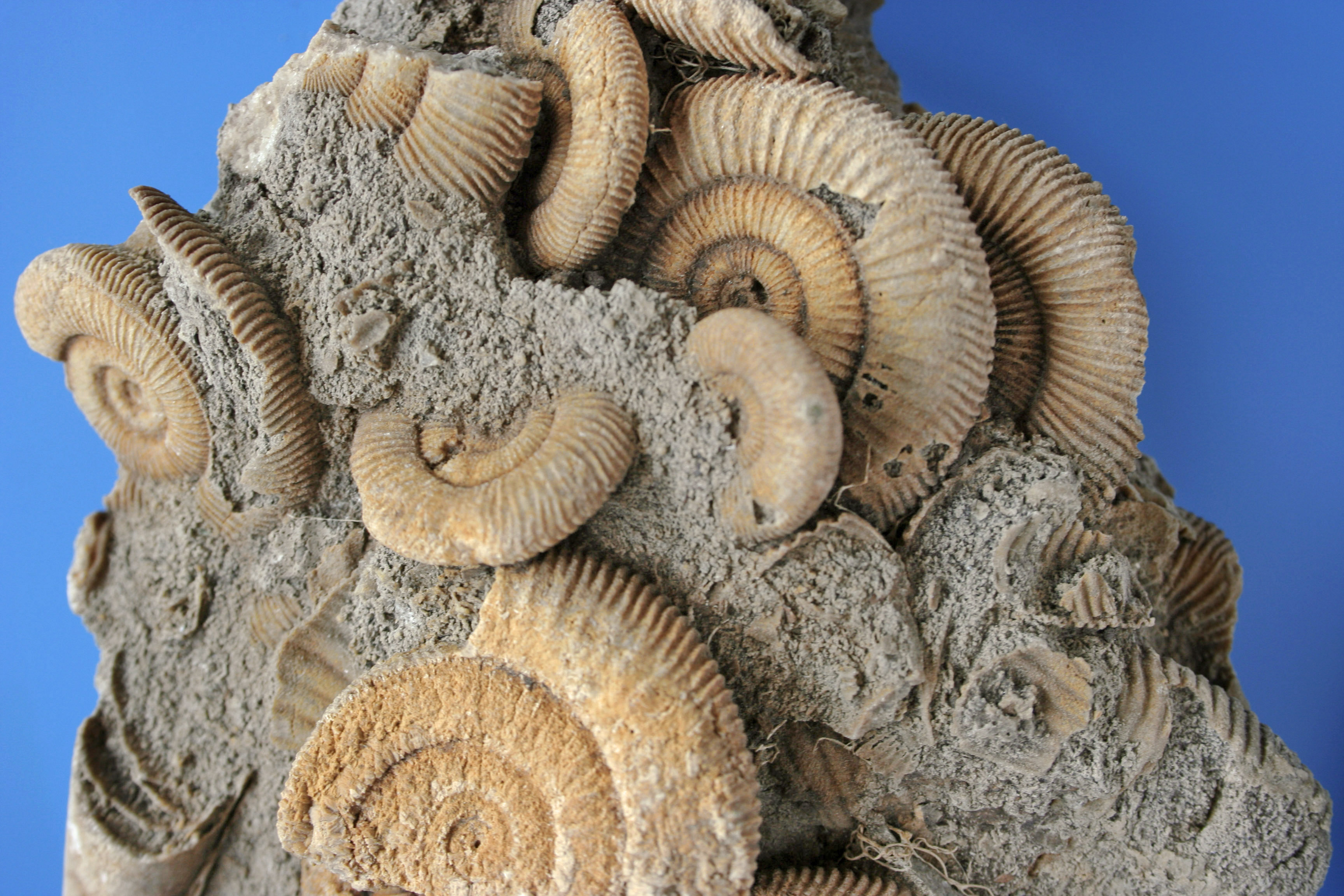 Ammonites Dactylioceras athleticum; Schlaifhausen-Wiesenthau, Germany; Formation: Schwarzer Jura/ Lias Epsilon, appr. to the Early Jurassic